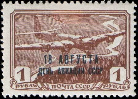 The Soviet Union 1939 CPA 690 stamp (Plane). Seriesː Soviet Aviation Day, Aug. 18, 1939